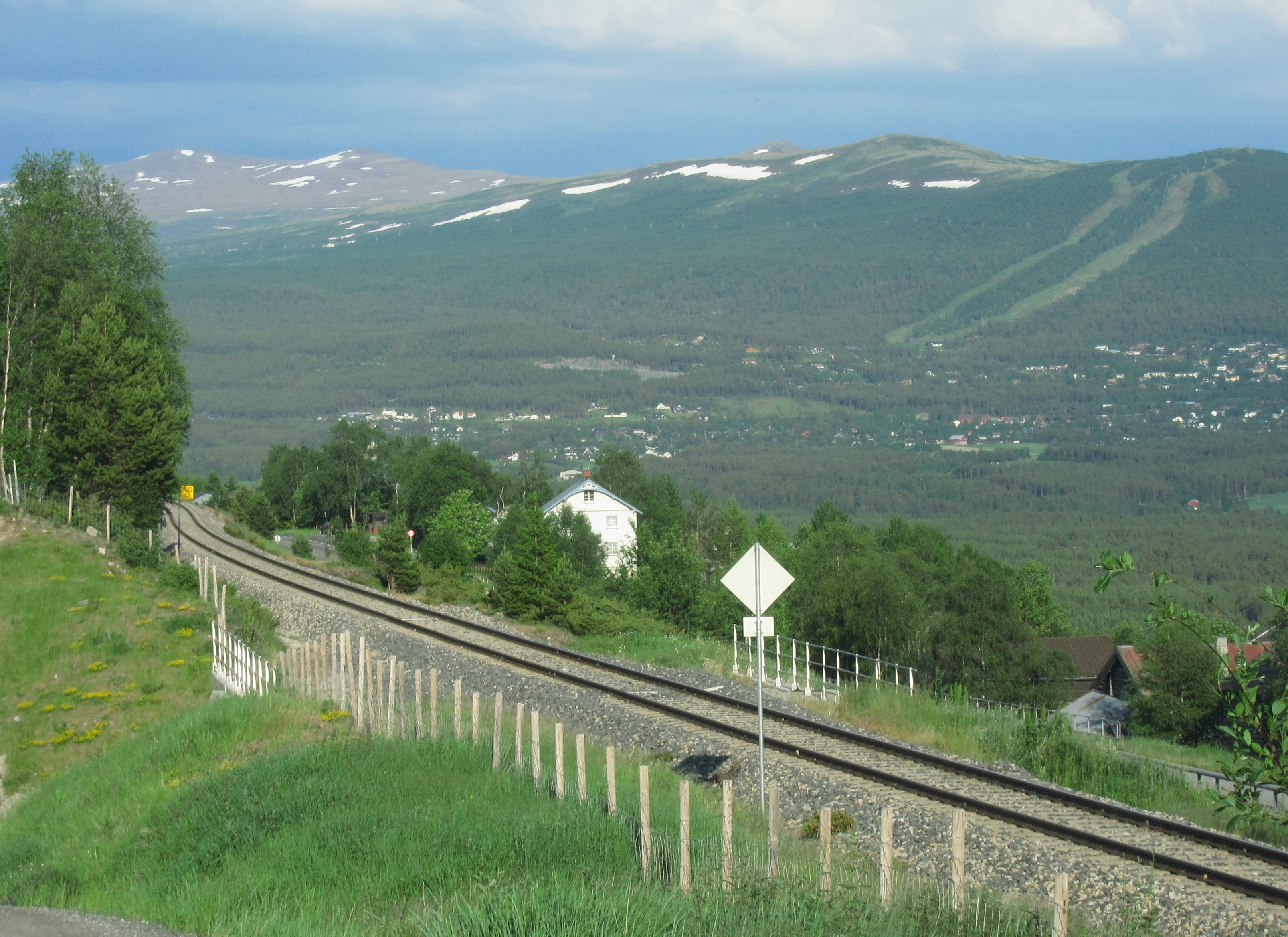 Raumabanen (Rauma railway) at near Dombås. Dombås village and ski slopes behind.